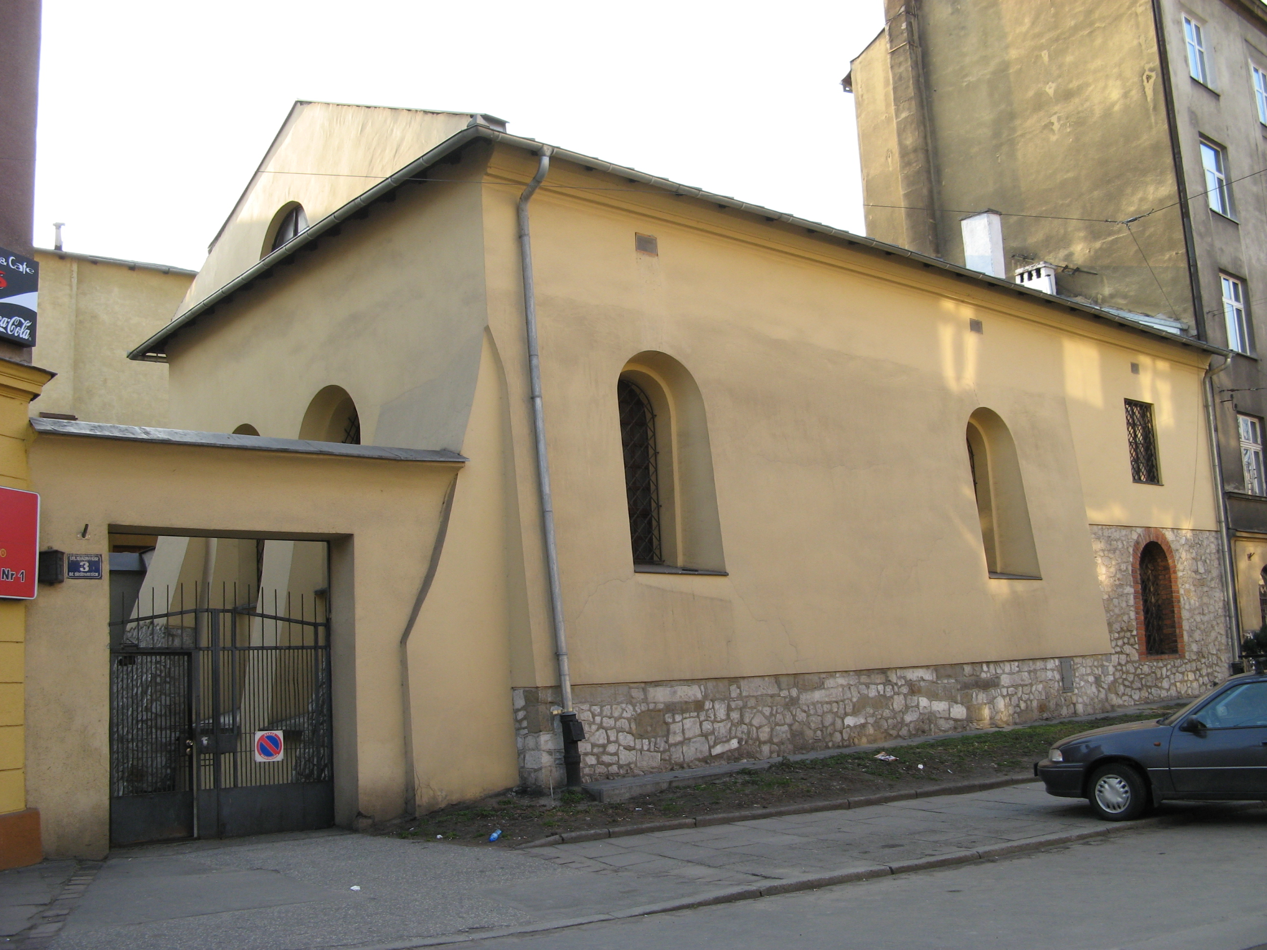 The Popper Synagogue in Kraków